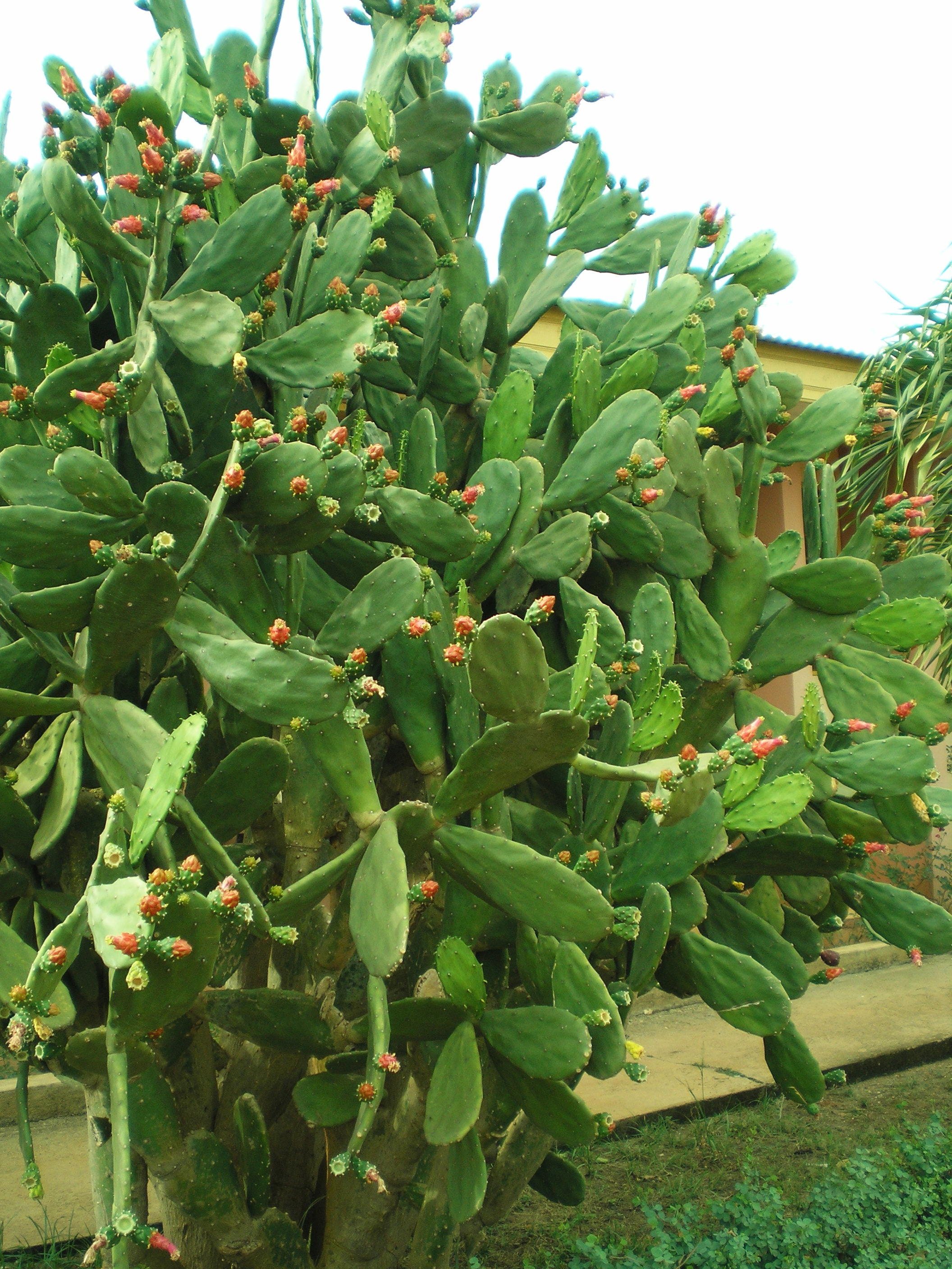 Opuntia cochenillifera, a species of prickly pear cactus, photographed in Kumasi, Ghana. This plant is more than two meters tall.